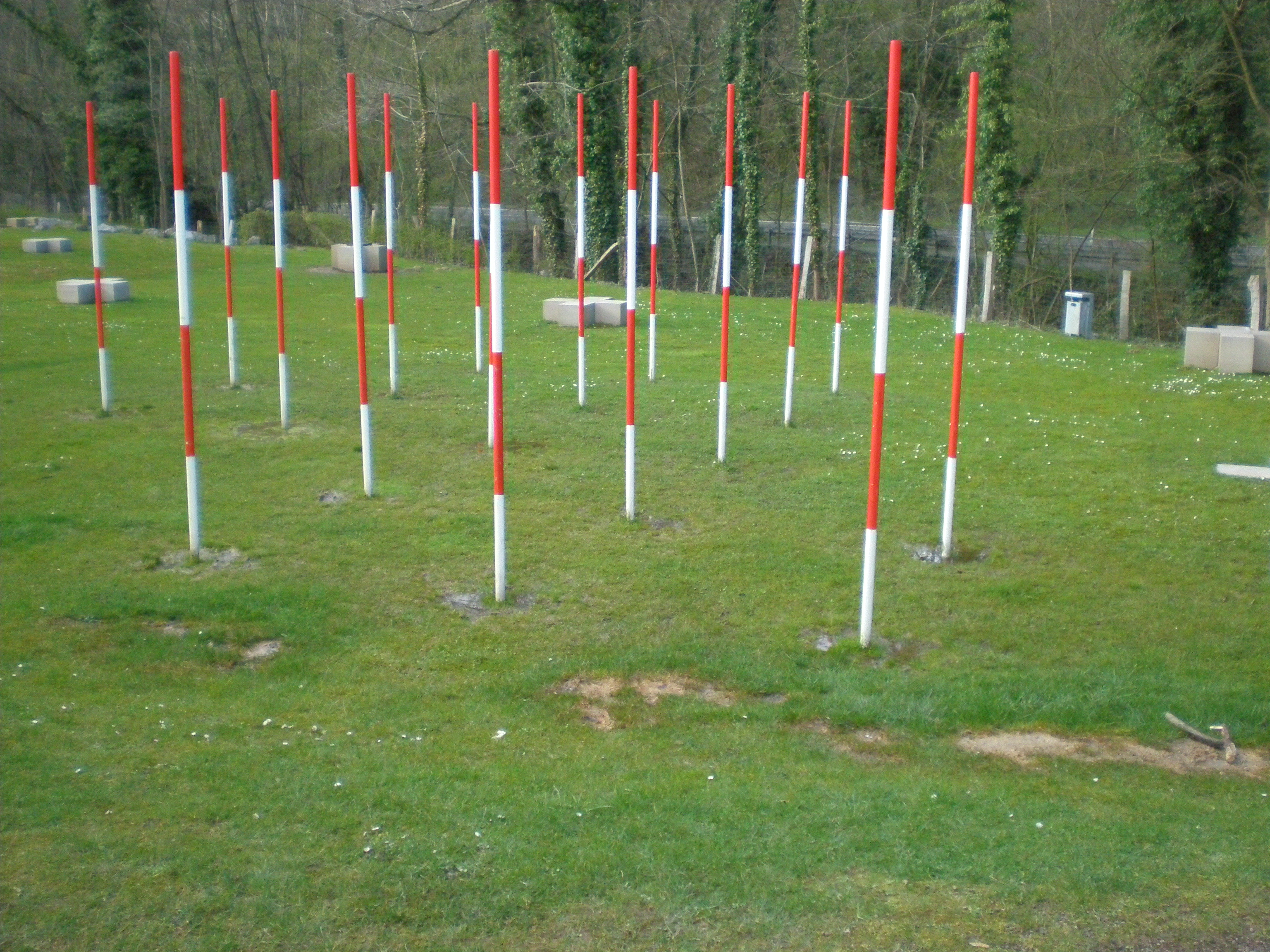 This is the area where the Neanderthal type specimen (though Neanderthal 1 was not the first find) was excavated by quarry workers in 1856. It is located east of Erkrath, Germany, and is maintained by the nearby Neanderthal Museum. The ranging rods are part of an "archaeological garden" and mark the 1997/2000 excavation site, where debris from the "Kleine Feldhofer Grotte" (original place of discovery, 1856) and additional fossil parts were found. The "Kleine Feldhofer Grotte" was a cave a few metres above in a limestone cliff, which was destroyed by quarrying in the 19th century. (So the exact location of the 1856 site is now "in the air"; no rocks left there.)